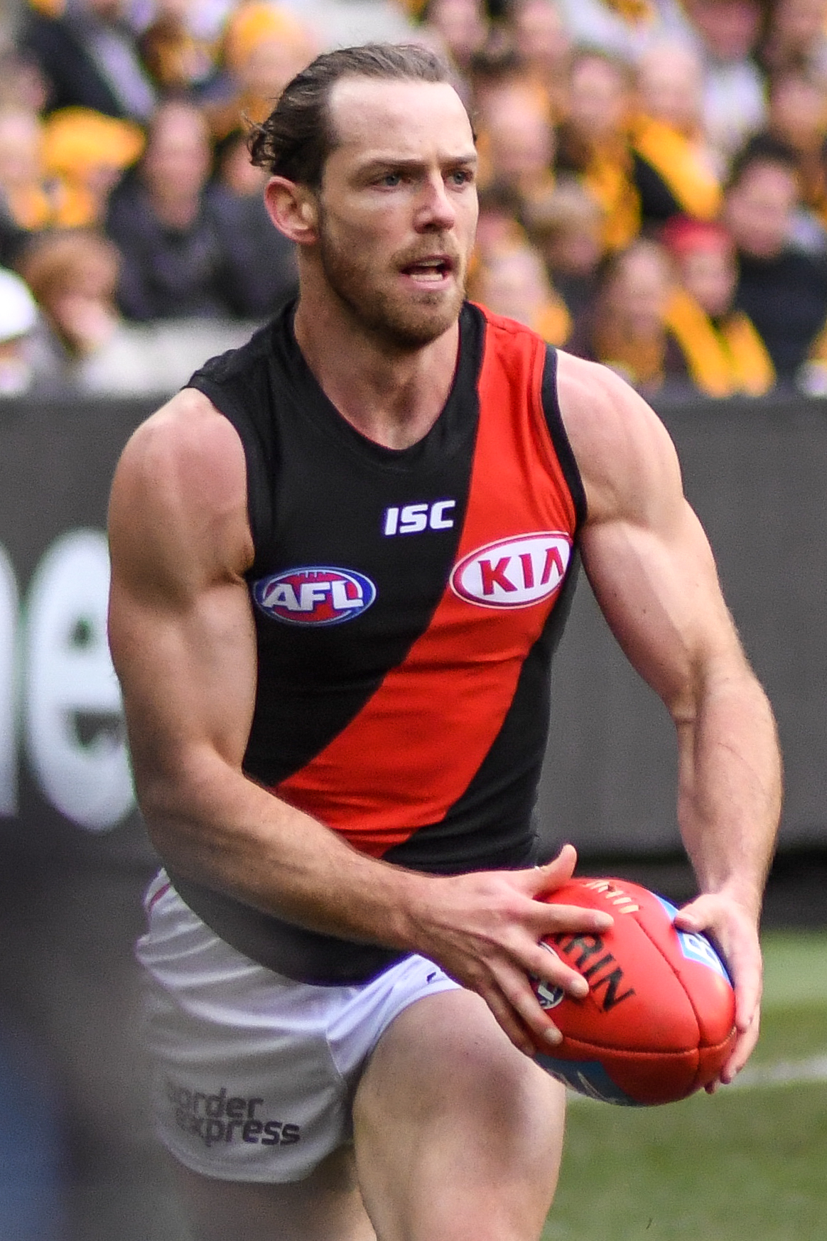 Travis Colyer of Essendon during the 2018 AFL round 20 match between Hawthorn and Essendon at the Melbourne Cricket Ground on Saturday, 4 August 2018 in Melbourne, Victoria.